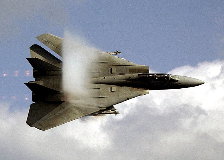 An F-14D Tomcat assigned to the "Bounty Hunters" of Fighter Squadron Two (VF-2) flies over the USS Constellation on Christmas morning 2002.